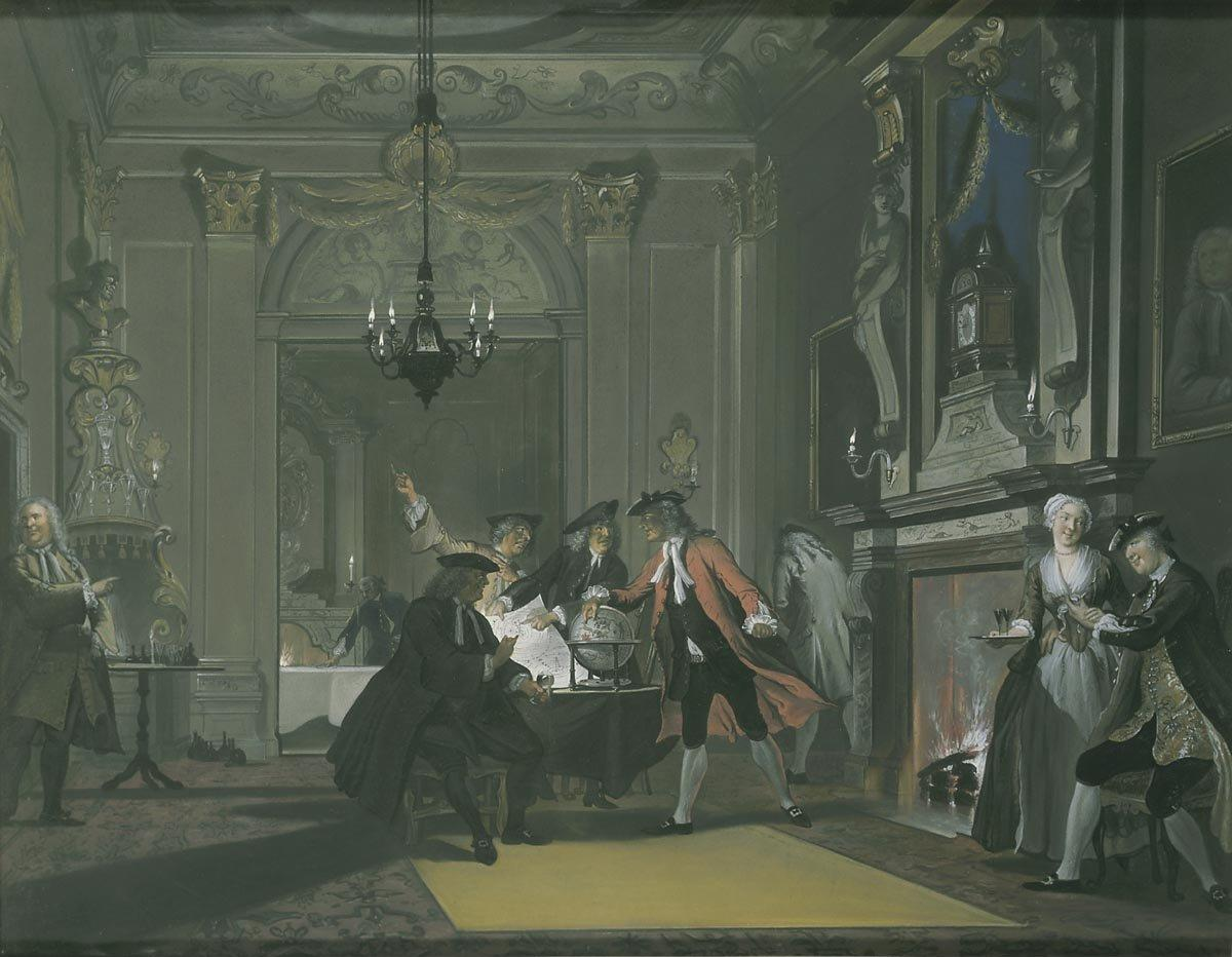 Part of the series {name }.